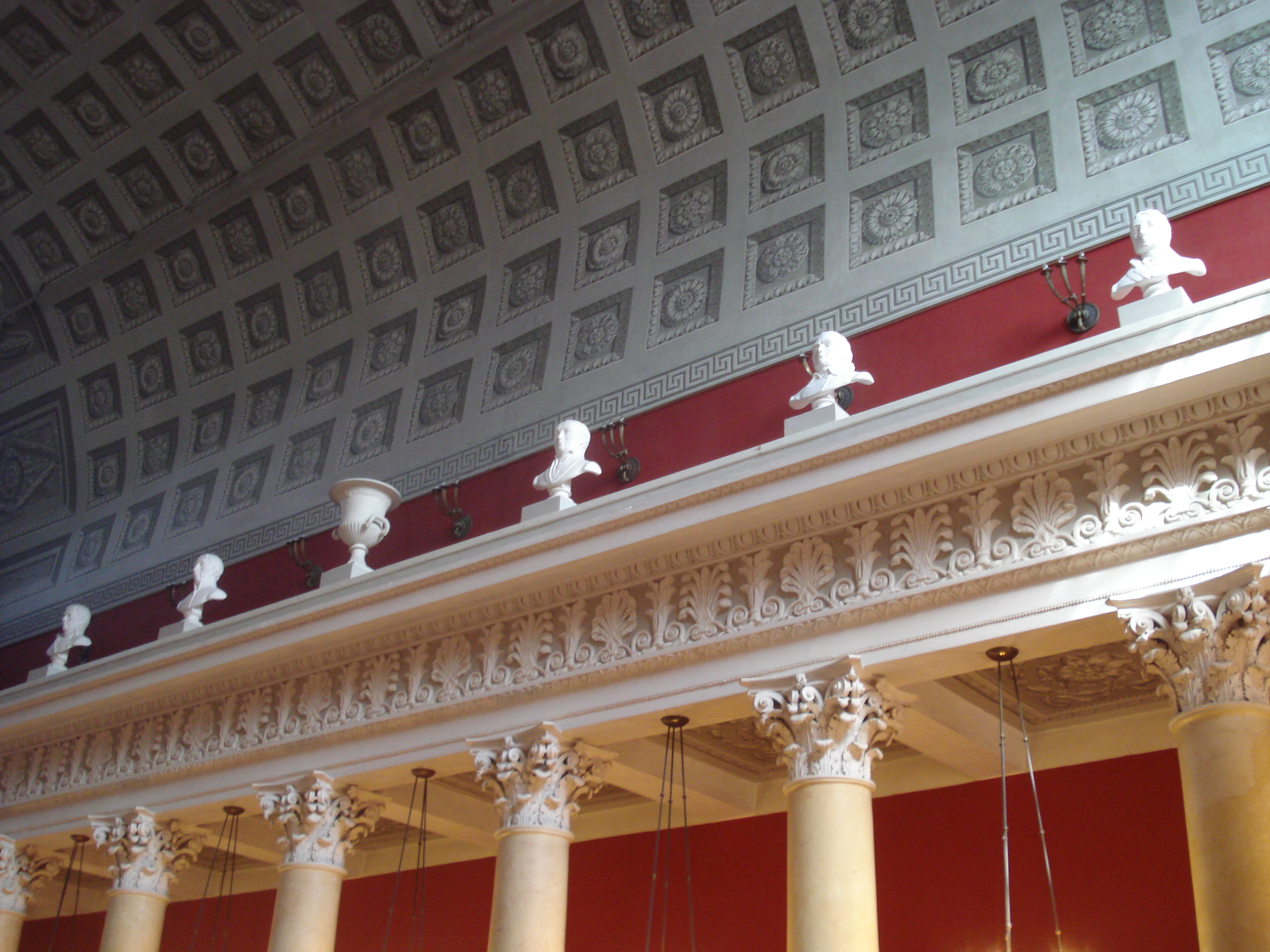 Aula (main building of Vilnius university)